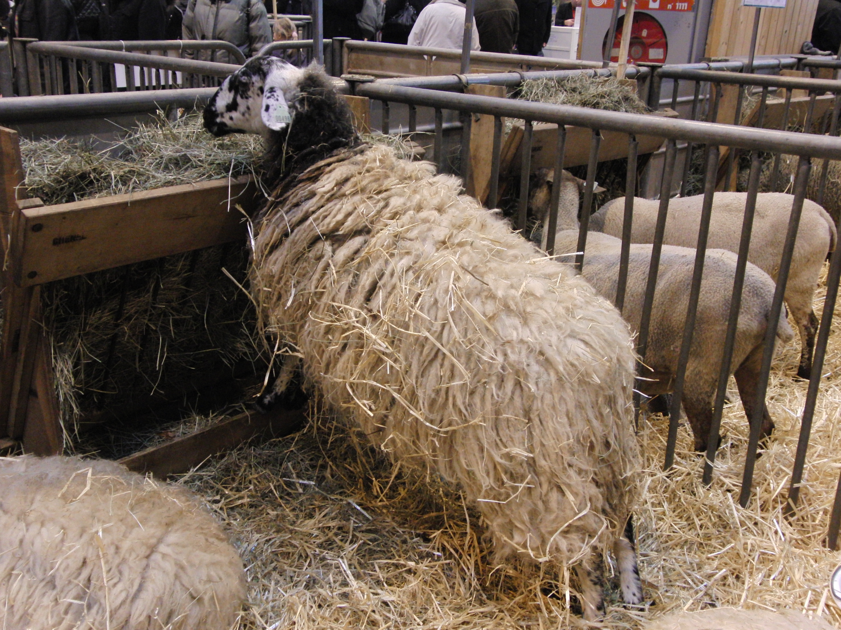 Rava sheep - Salon international de l'agriculture 2011, Paris, France